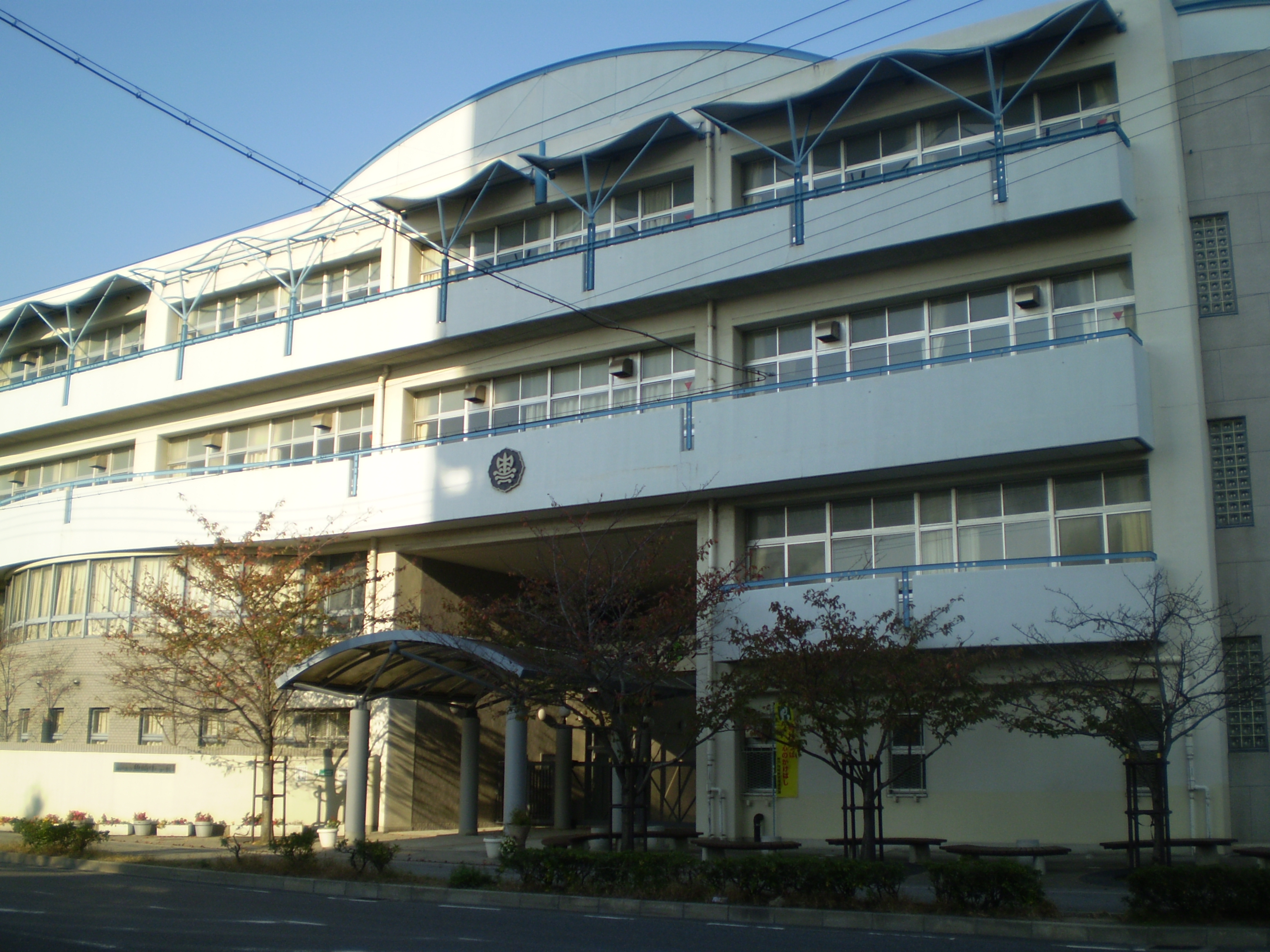 Uozaki Junior High School (Kobe, Japan)